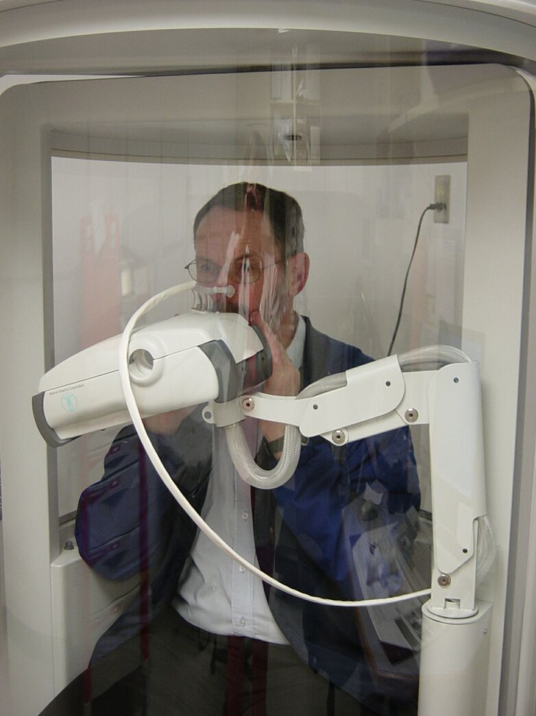 Body box with male subject enclosed